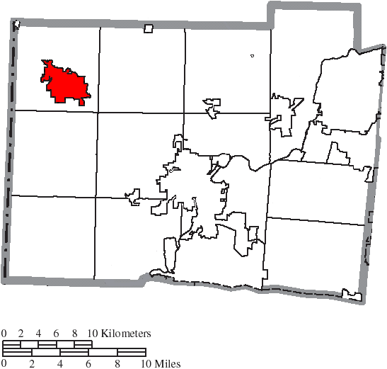 Map of the municipal and township boundaries of Butler County, Ohio, United States, as of the 2000 census, with the location of the city of Oxford highlighted. Township borders are shown only in unincorporated areas in order to differentiate incorporated and unincorporated areas more clearly.